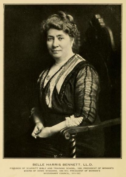 Formal portrait taken from an illustration found at the frontespiece of the 1928 biography by Mrs. R.W. MacDonell of suffragist and Southern Methodist missionary leader Belle Harris Bennett.